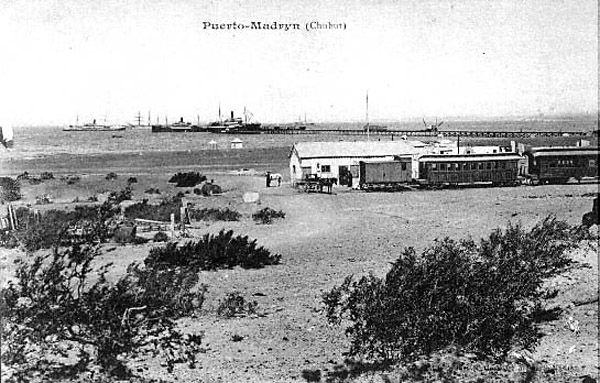 Train at Puerto Madryn station soon after the Central Chubut Railway was opened.